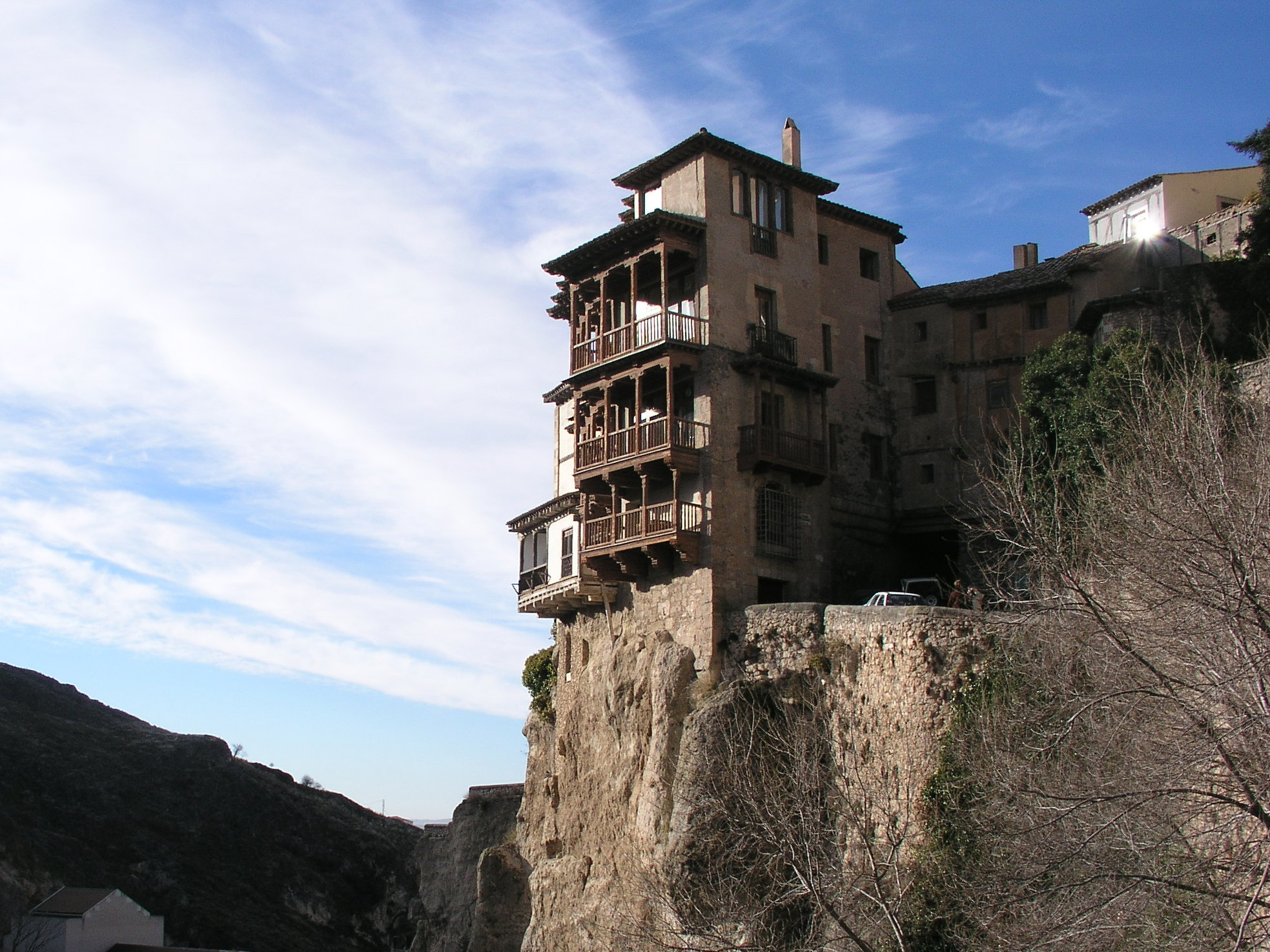 Casas Colgadas (built in XV century).